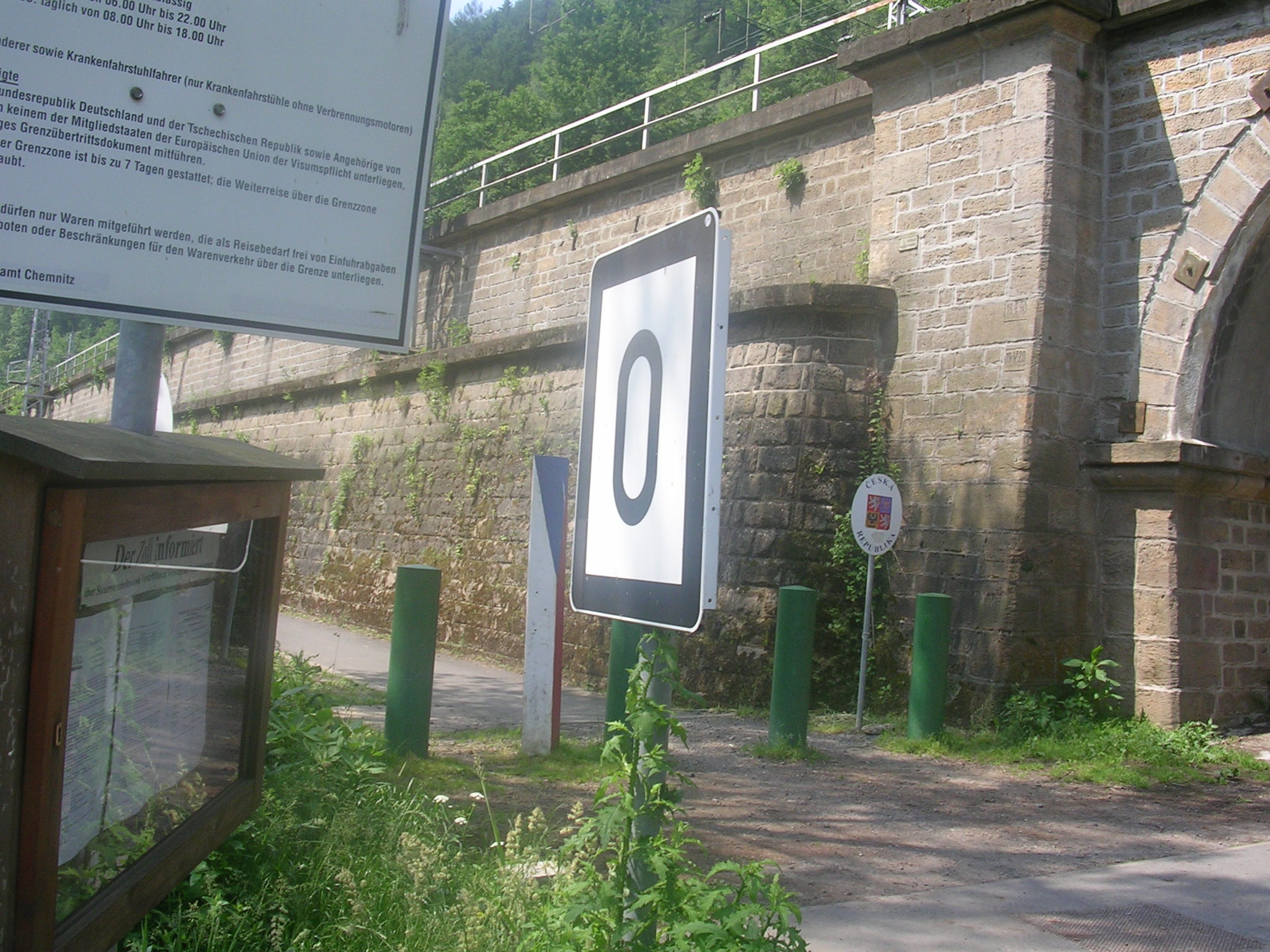 Frontier crossing at trail Dolní Žleb (the Czech Republic) – Schöna (Germany).